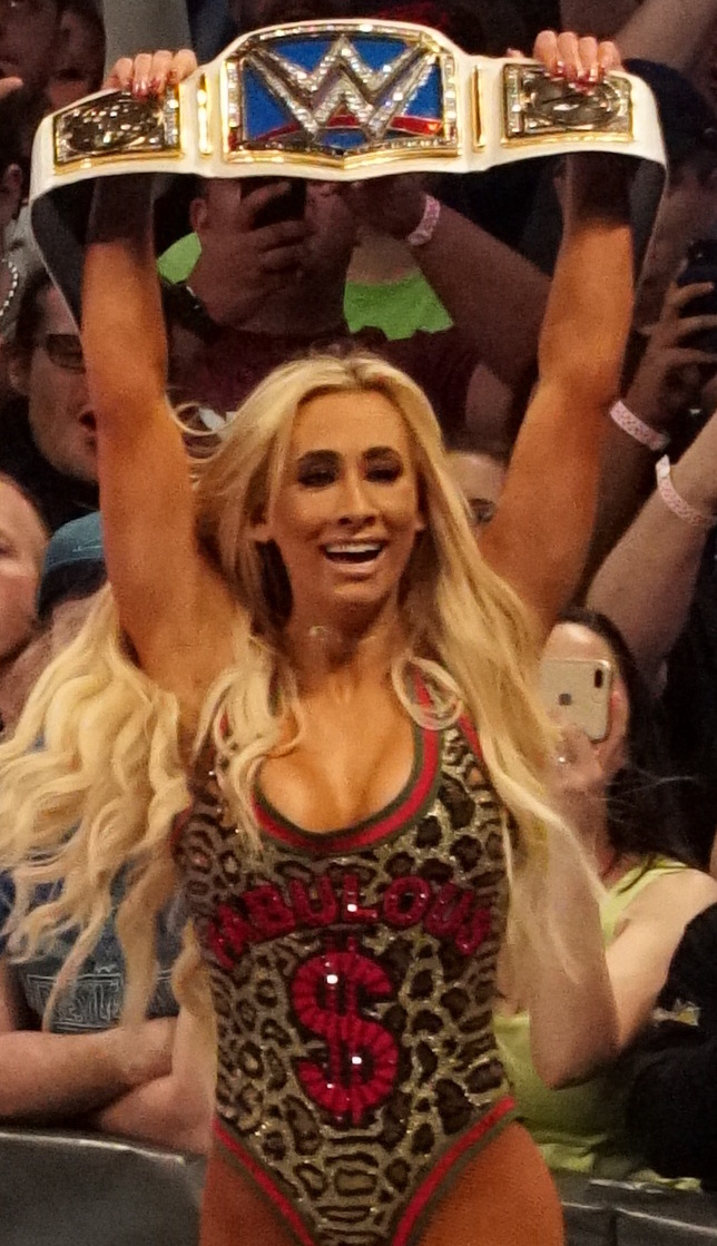 NOLA 2018 - WWE Smackdown Live - Carmella Vs Charlotte Flair Carmella def. (pin) Charlotte Flair (c) (in 00:14) For : WWE Smackdown Women's Title (title change) Cashing of the money in the bank after the attack of the Iconic ( Deux semaines a Nola pour la ville et pour WWE Wrestlemania XXXIV Two weeks Nola for the city and for WWE Wrestlemania XXXIV )